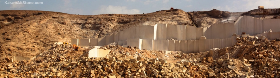 معدن سنگ برزاباد